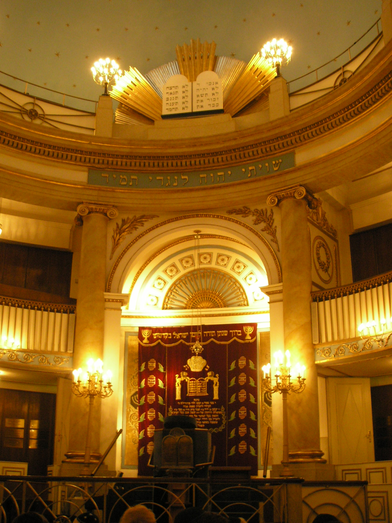 Image of the interior of the Stadttempel in Vienna.